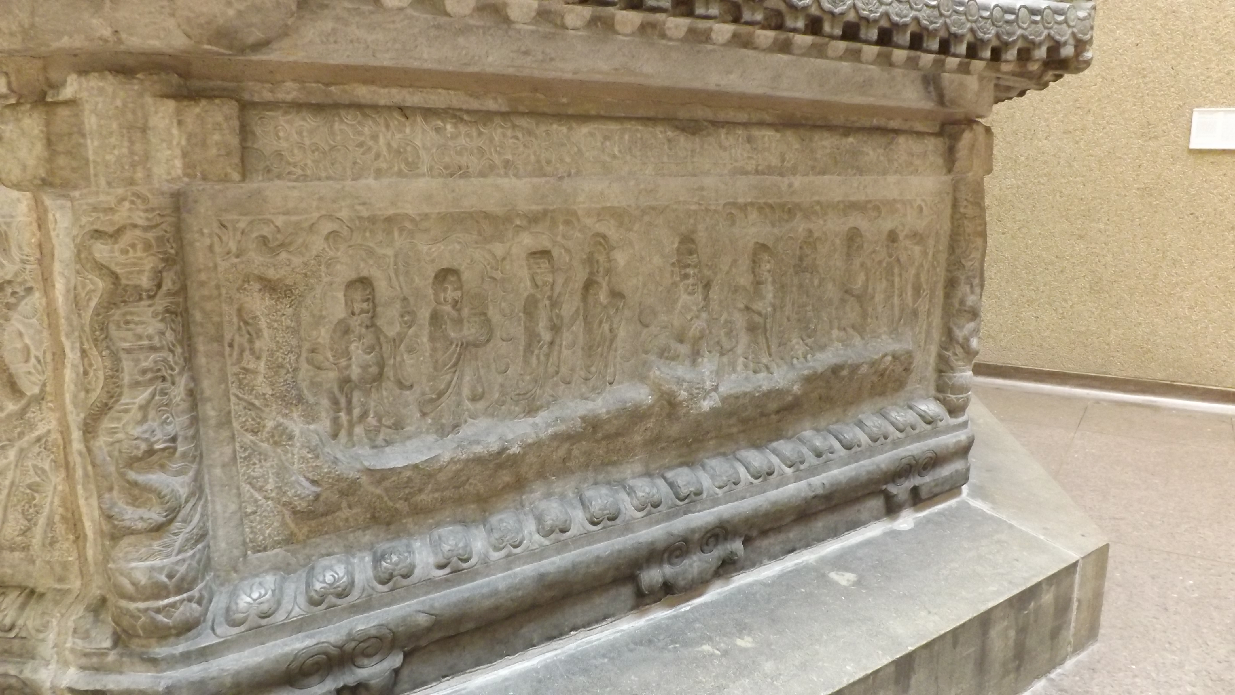 Tomb base, Royal Ontario Museum